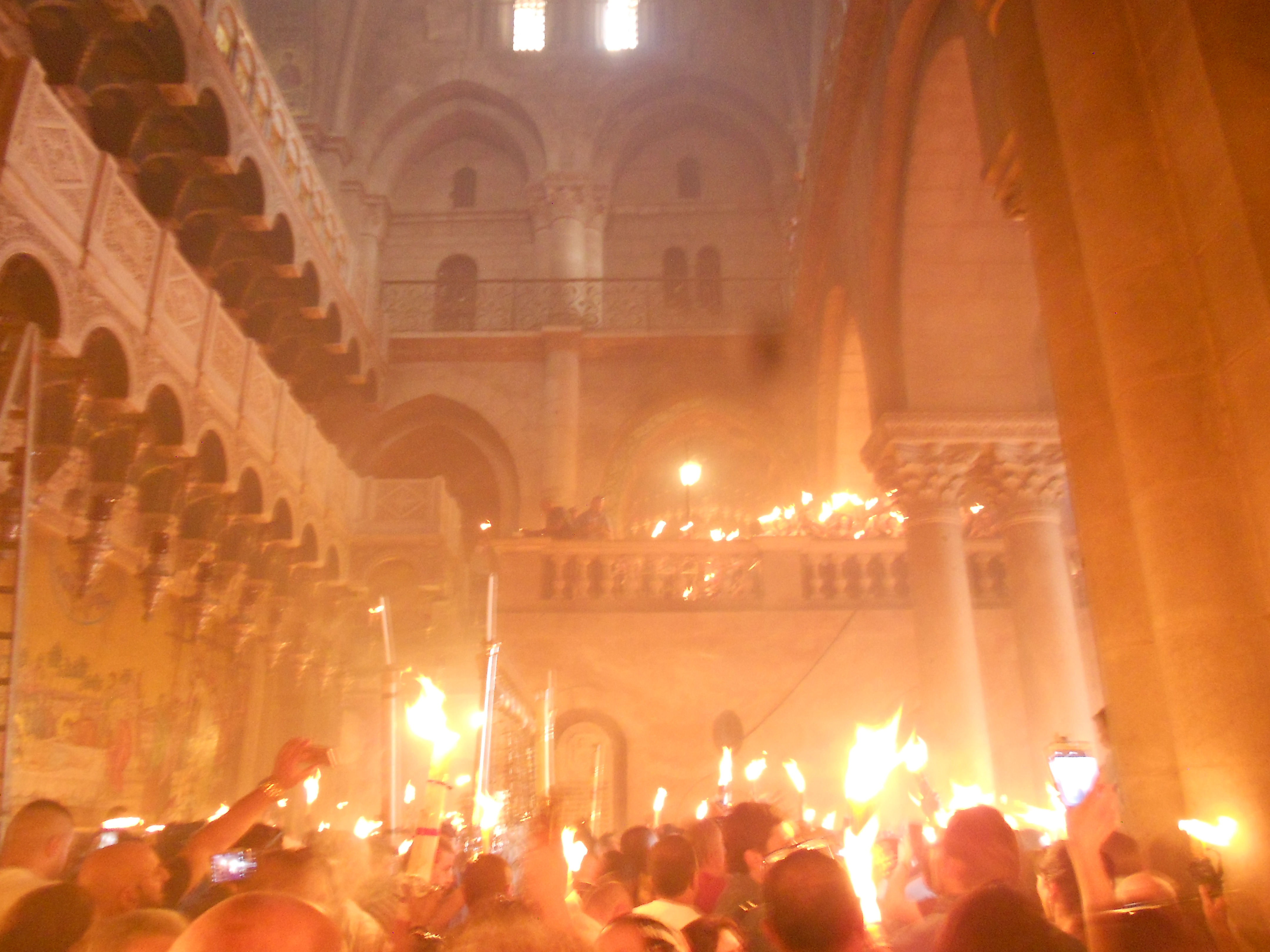 Holy Fire in Jerusalem 2018-04-07 Holy Fire in Jerusalem 2018-04-07